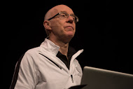 Font designer Nick Shinn